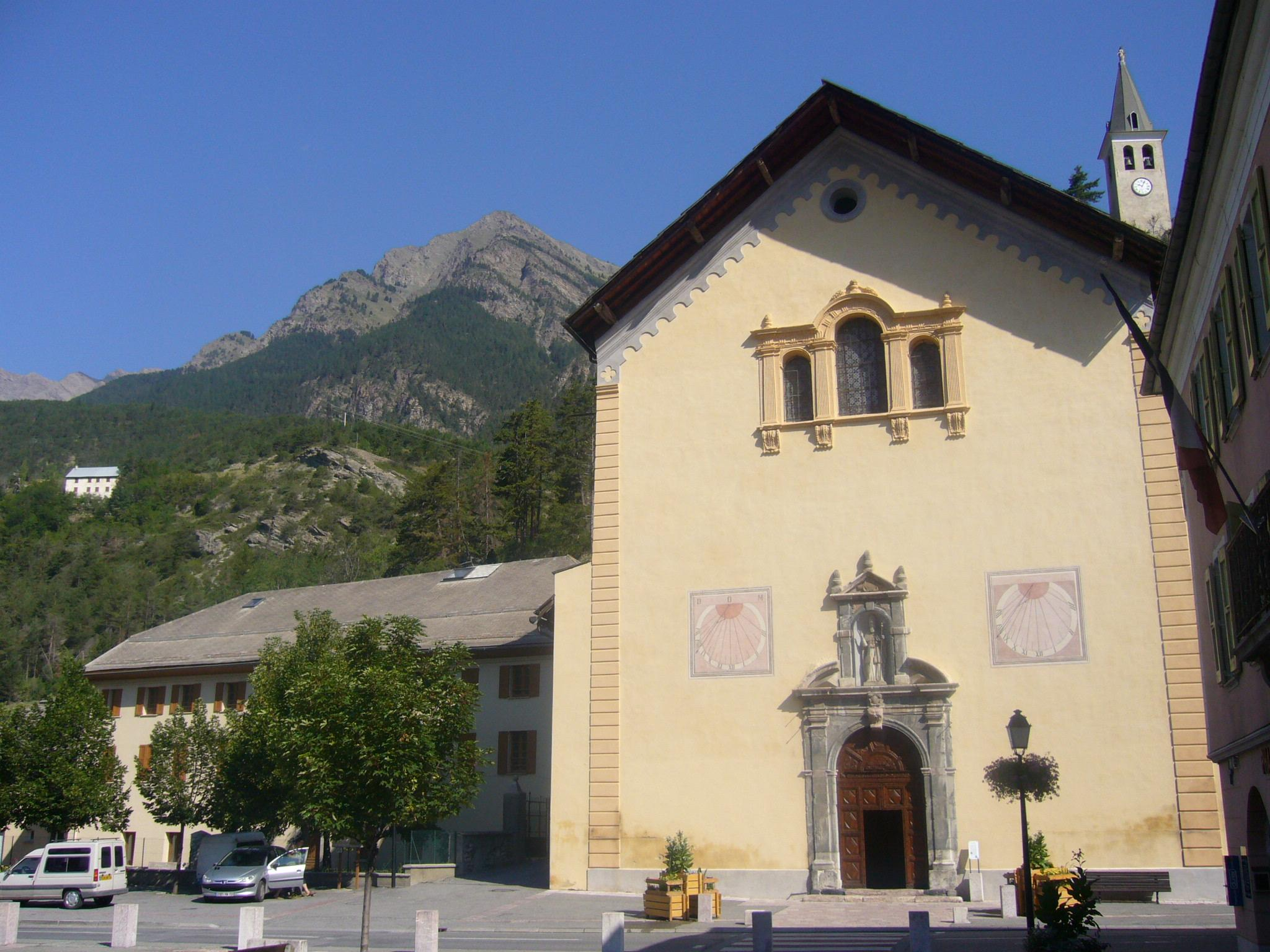 The church of Jausiers, in the French Alps (Alpes-de-Haute-Provence). I took this photo in July 2006.